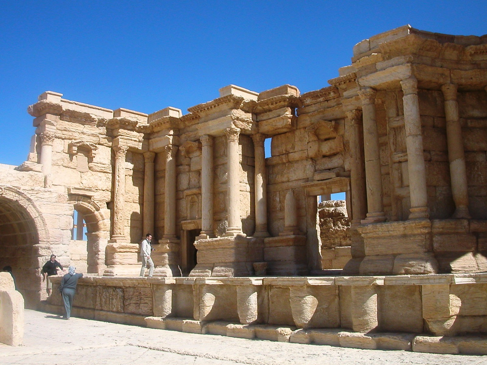 Palmyra 5